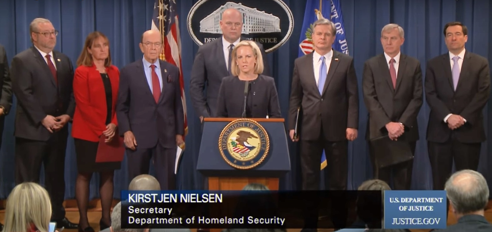 Acting U.S. Attorney General Matthew Whitaker, Homeland Security Secretary Kirstjen Nielsen, Commerce Secretary Wilbur Ross, FBI Director Christopher Wray, U.S. Attorney Richard P. Donoghue for the Eastern District of New York, First Assistant U.S. Attorney Annette Hayes for the Western District of Washington, Assistant Attorney General Brian A. Benczkowski of the Justice Department's Criminal Division and Assistant Attorney General John C. Demers of the National Security Division announced the 23 charges (including Banking and Financial Fraud, Money Laundering, Wire Fraud, Conspiracy to Defraud the United States, Theft of Trade Secret and Technology, Offered Bonus to Workers who Stole Confidential Information from Companies Around the World, Obstruction of Justice and Sanctions Violations, etc.) against Huawei, its CFO Wanzhou Meng, Huawei Device USA Inc. and Huawei’s Iranian Subsidiary Skycom. Acting Attorney General Whitaker Announces National Security-Related Criminal Charges Against Chinese Telecommunications Conglomerate Huawei Acting Attorney General Matthew Whitaker Announces National Security-Related Criminal Charges Against Chinese Telecommunications Conglomerate Huawei Chinese Telecommunications Device Manufacturer and its U.S. Affiliate Indicted for Theft of Trade Secrets, Wire Fraud, and Obstruction Of Justice Chinese Telecommunications Conglomerate Huawei and Huawei CFO Wanzhou Meng Charged With Financial Fraud